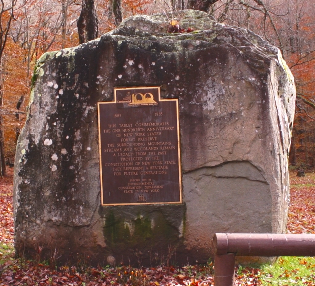 This is a picture of the Devil's Tombstone, which is the origin of the name for a park in the Catskill Mountains